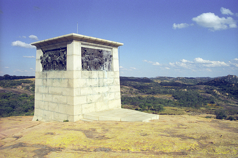 View of the Shangani Patrol Monument in the Matobos National Park, Zimbabwe. Scanned from slide taken in 1997.